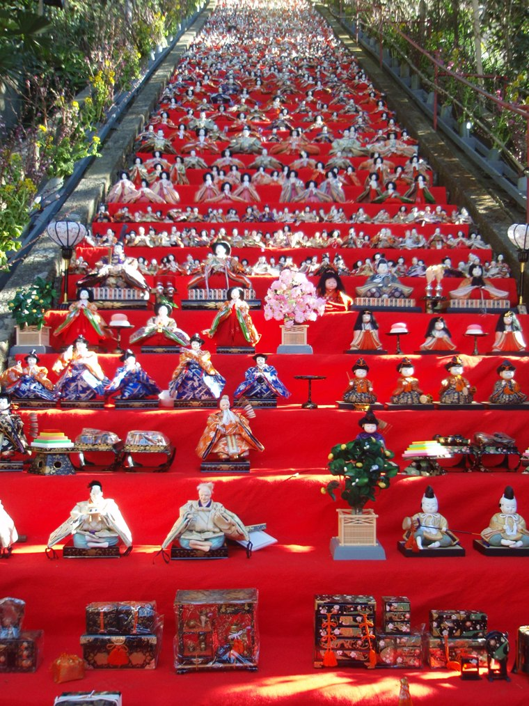 Big hinamatsuri in katsuura, Chiba.